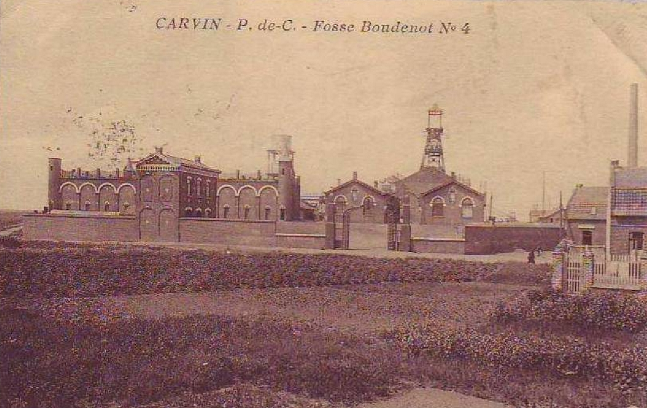 Compagnie des mines de Carvin, Pas-de-Calais, France.